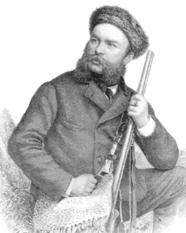 Theodor von Heuglin (1824-1876), German zoologist, ornithologist and explorer